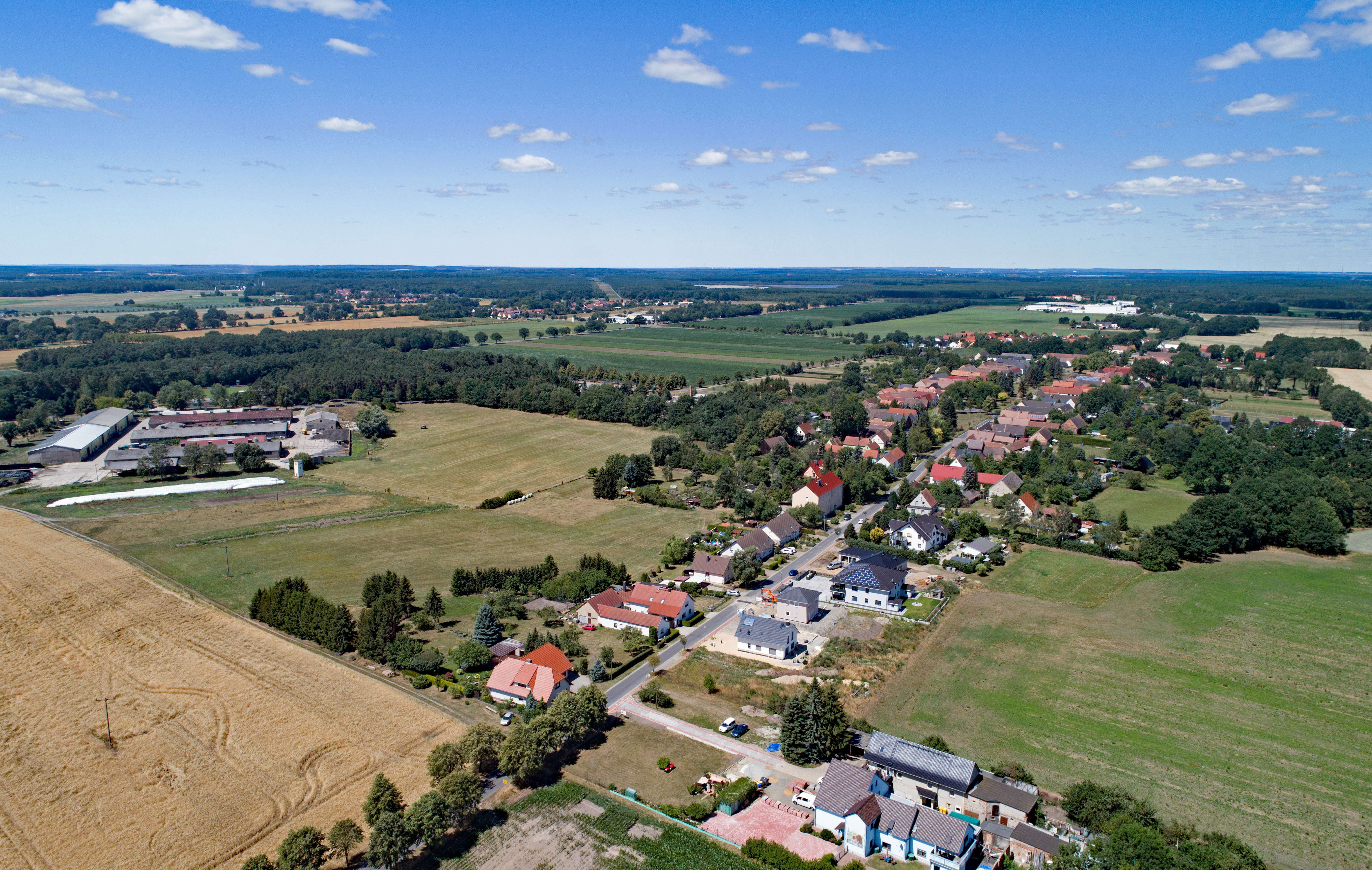 Bergen (Elsterheide, Saxony, Germany) Hornjoserbsce: Powětrowy wobraz Horow pola Wojerec